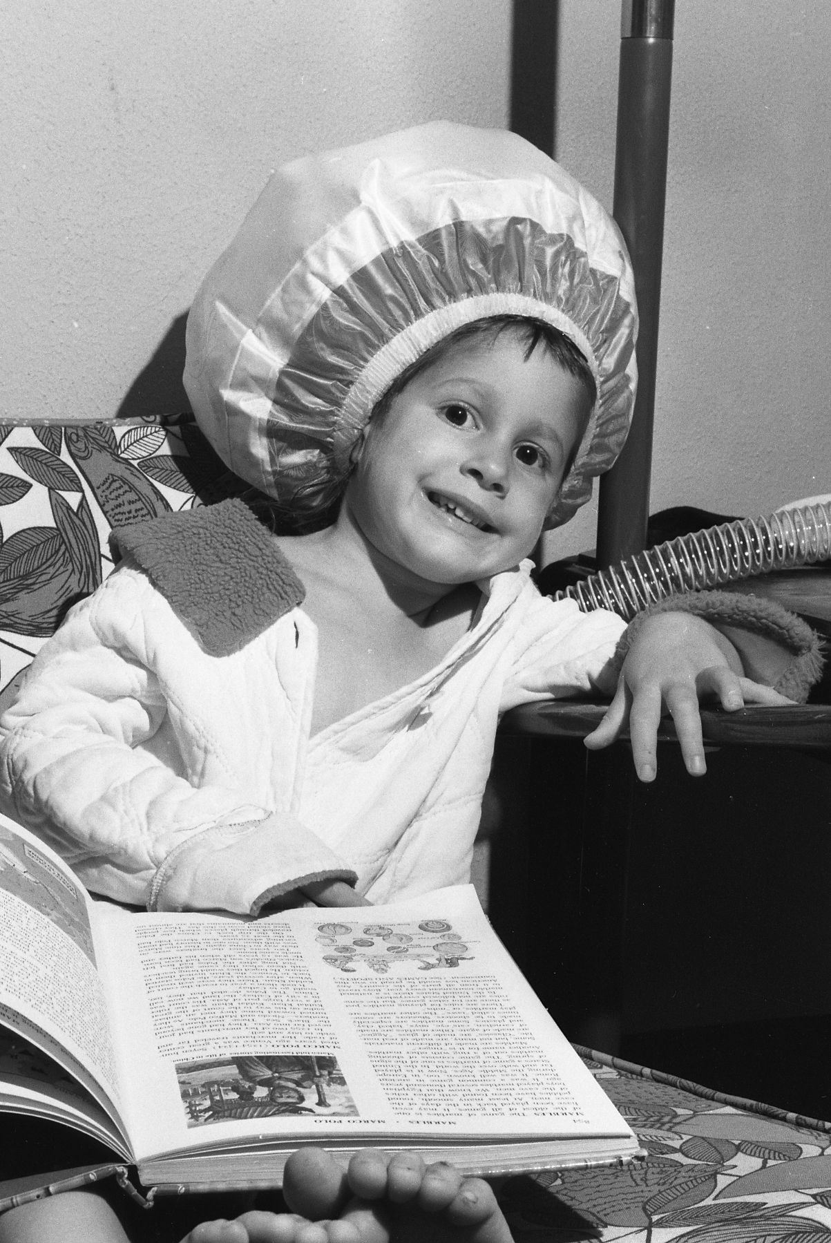 Girl using a bonnet-hood hair dryer, 1965